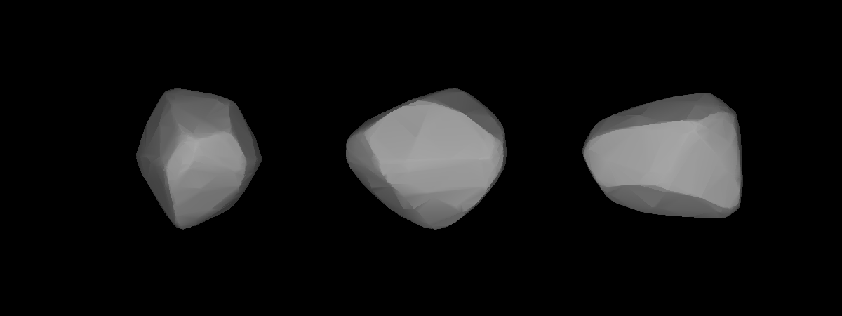 A three-dimensional model of 1785 Wurm that was computed using light curve inversion techniques.